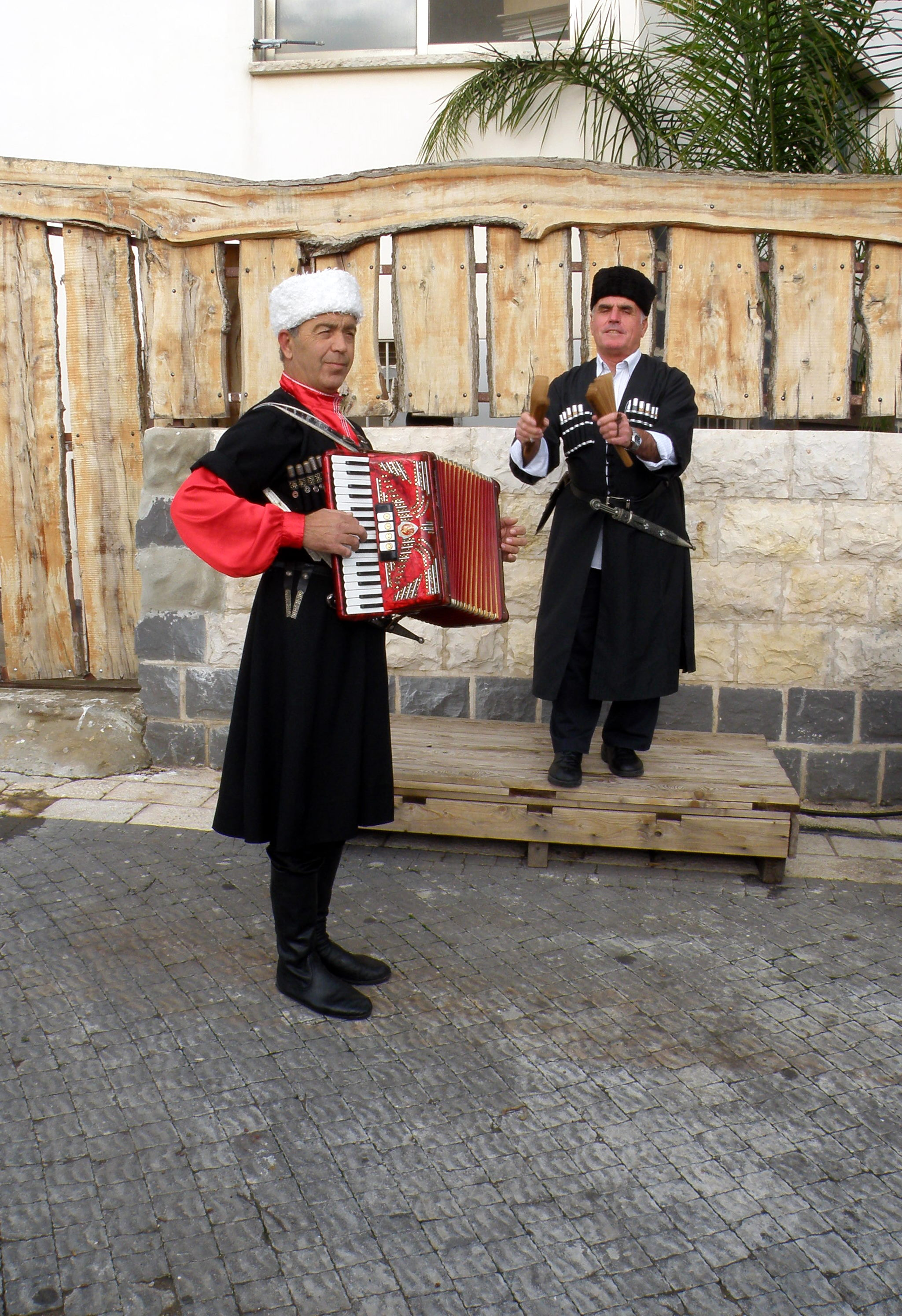 Circassian men in traditional clothes in Kfar Kama, Israel